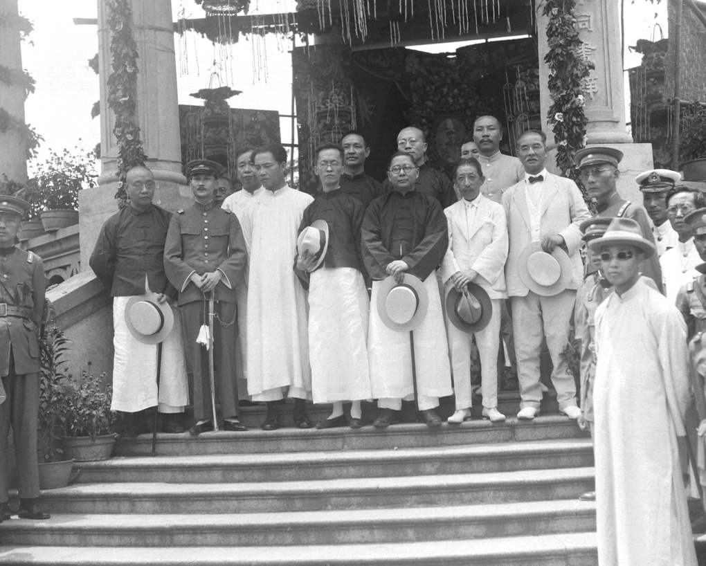 On July 1, 1925, some members of the National Government Standing Committee took a group photo. The front row left to right: Tan Yanxi, Xu Chongzhi, Wang Jingwei, Hu Hanmin, Sun Ke, Liao Zhongkai, Lin Sen, back row left to right: Gu Yingfen, Cheng Qian, Wu Chaoshu, Zhu Peide